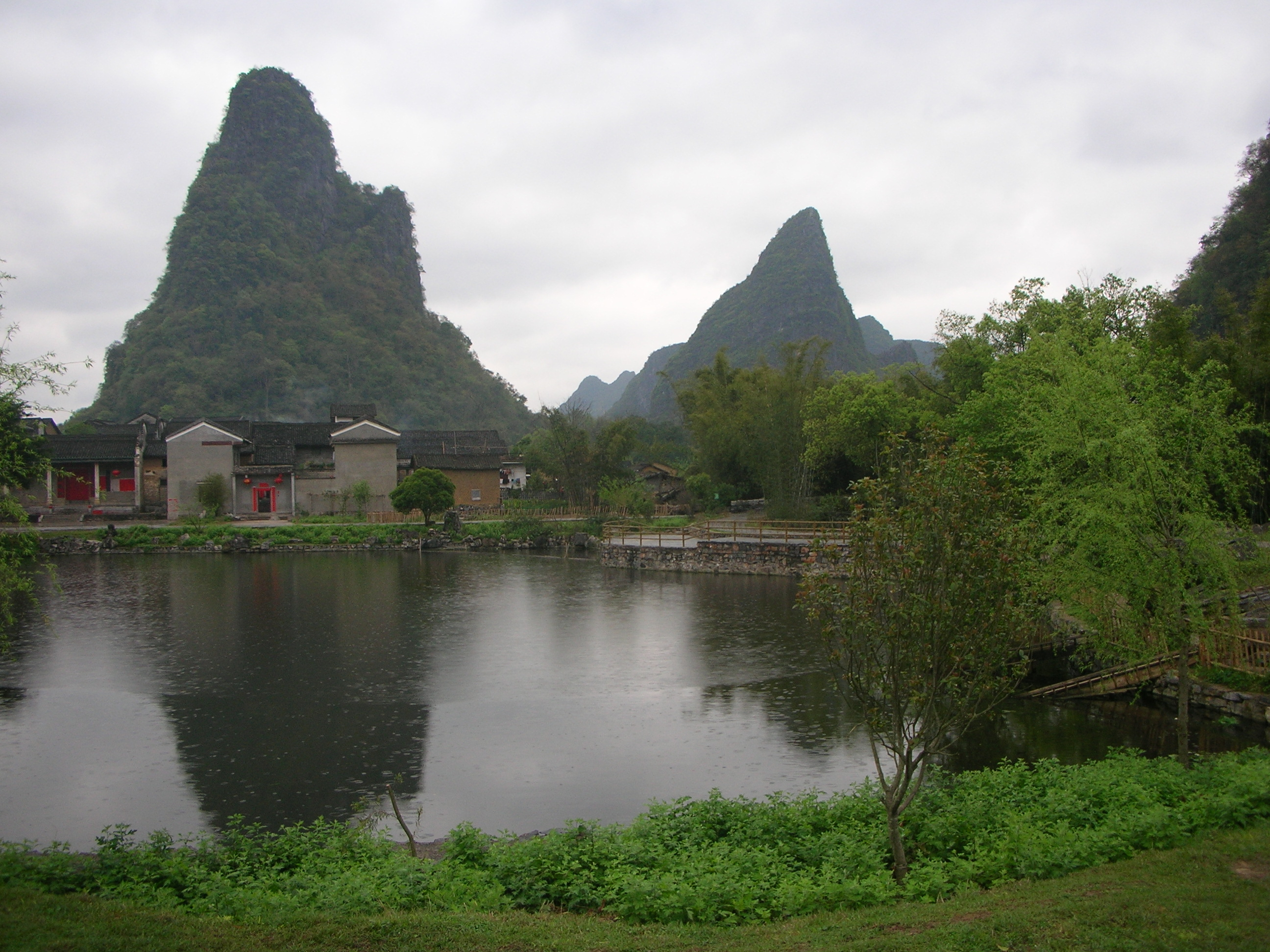 Views of karst hills in Huangyao